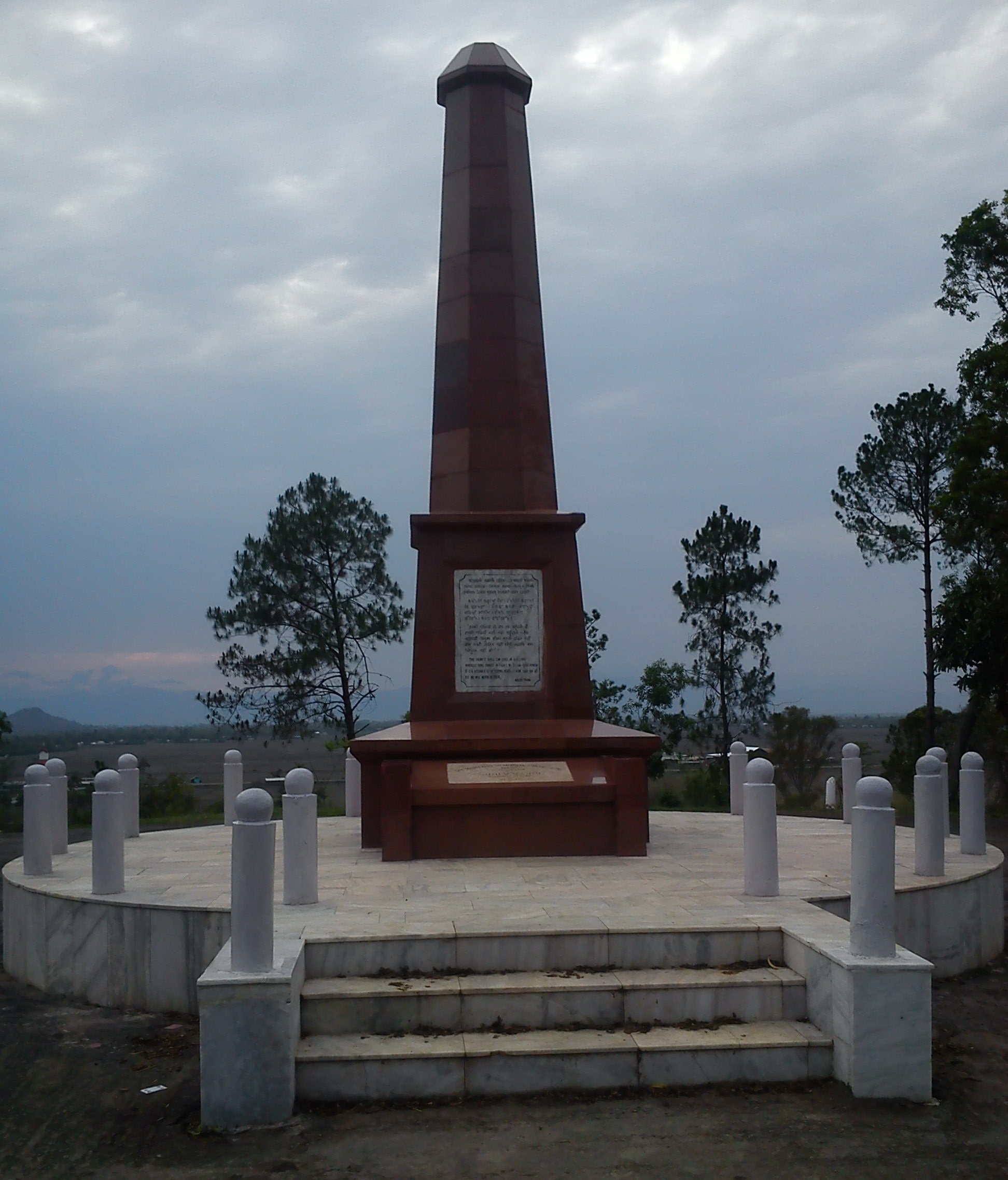 "Khongjom war memorial" is situated in Khongjom, Thoubal district, Manipur. Thousands of Manipur heros dead in this battle fought against British.